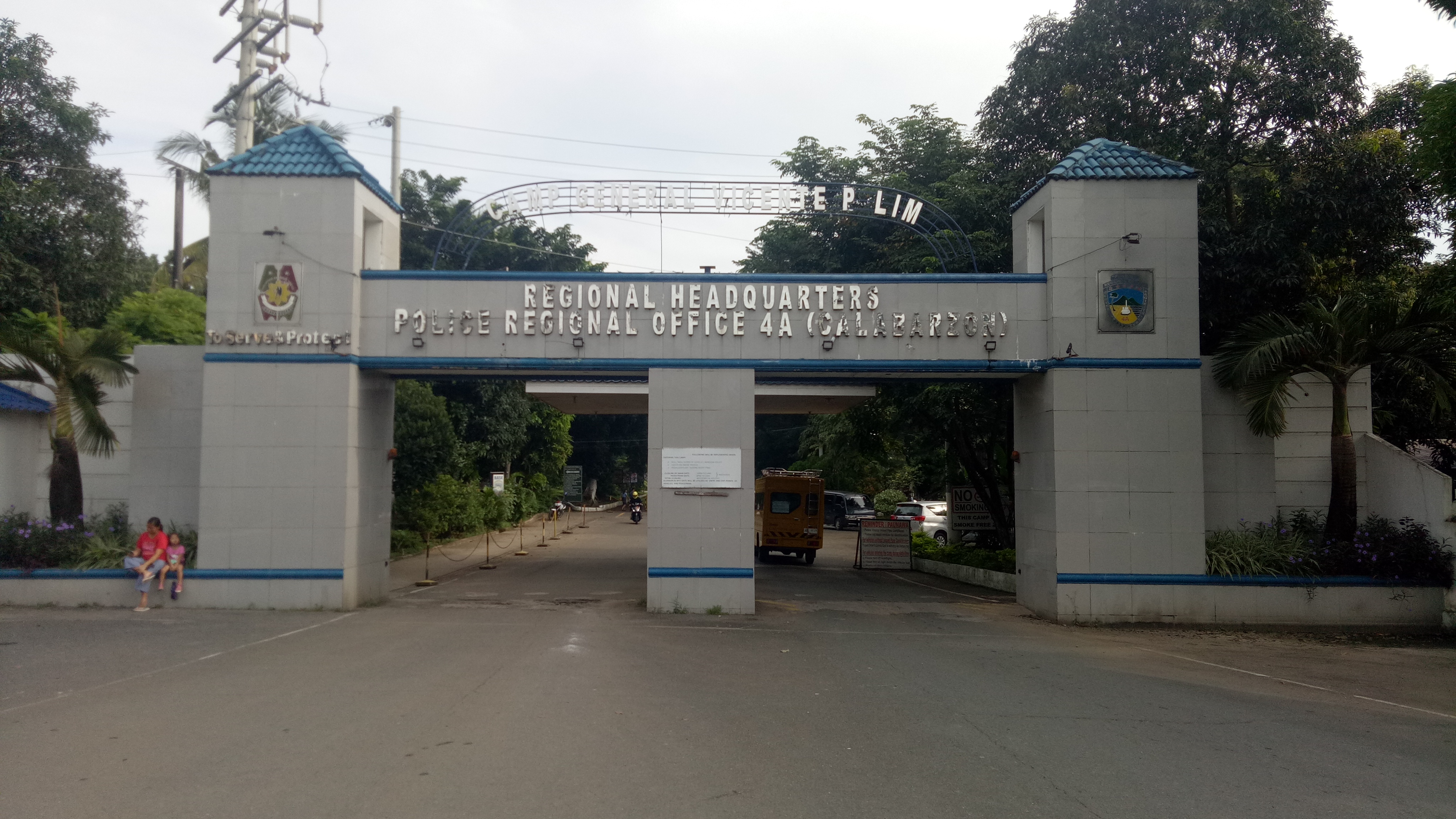 Camp Bgen Vicente P. Lim Gate 1